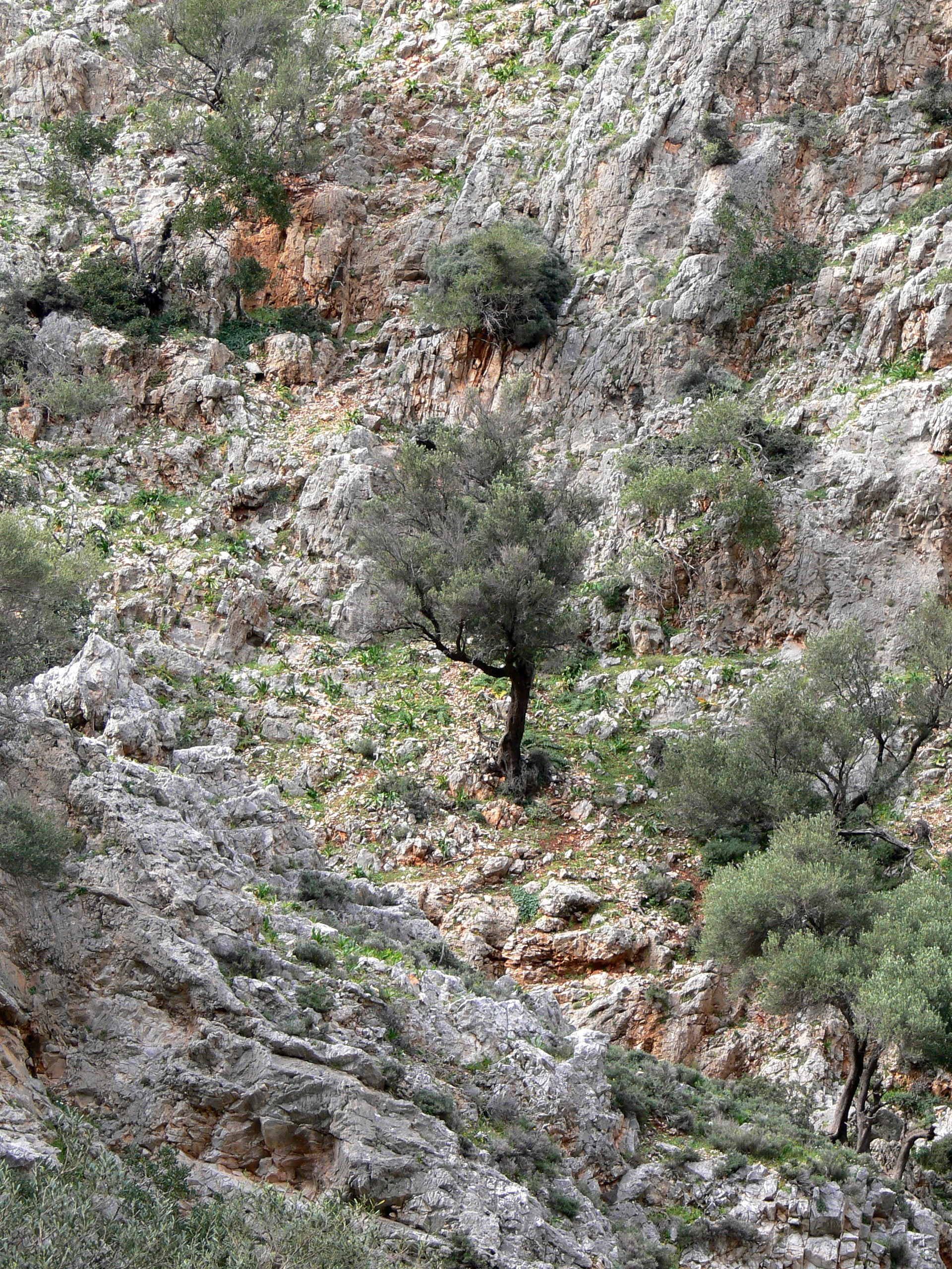 Katholikon monastery, Akrotiri ( Crete ). Olive trees in the gorge.